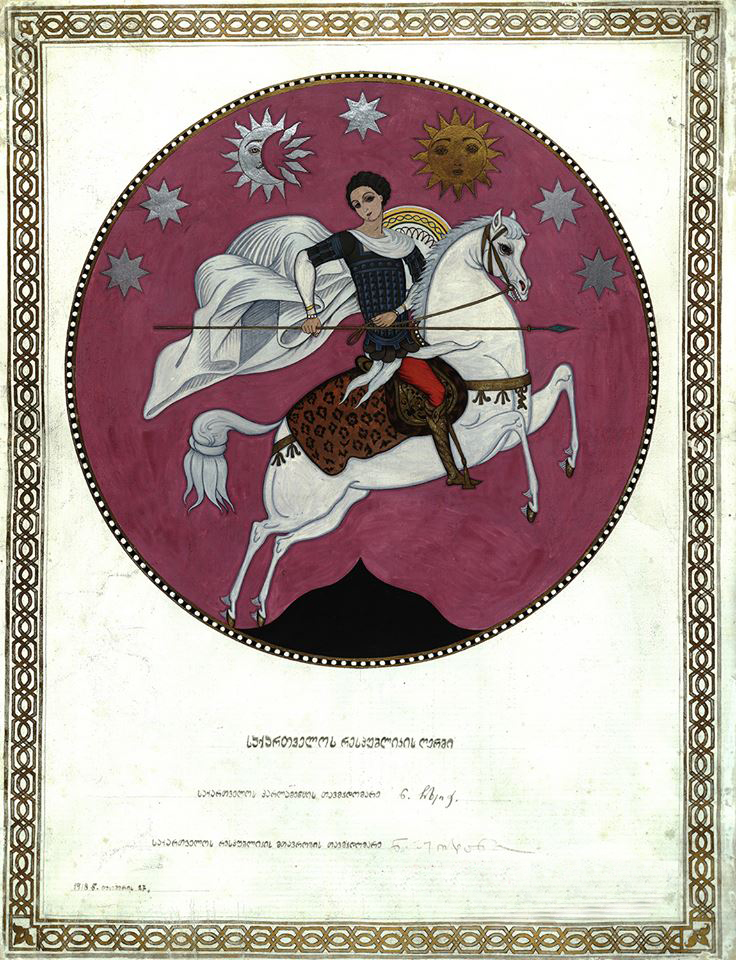 Coat of Arms of the Democratic Republic of Georgia 1918 document